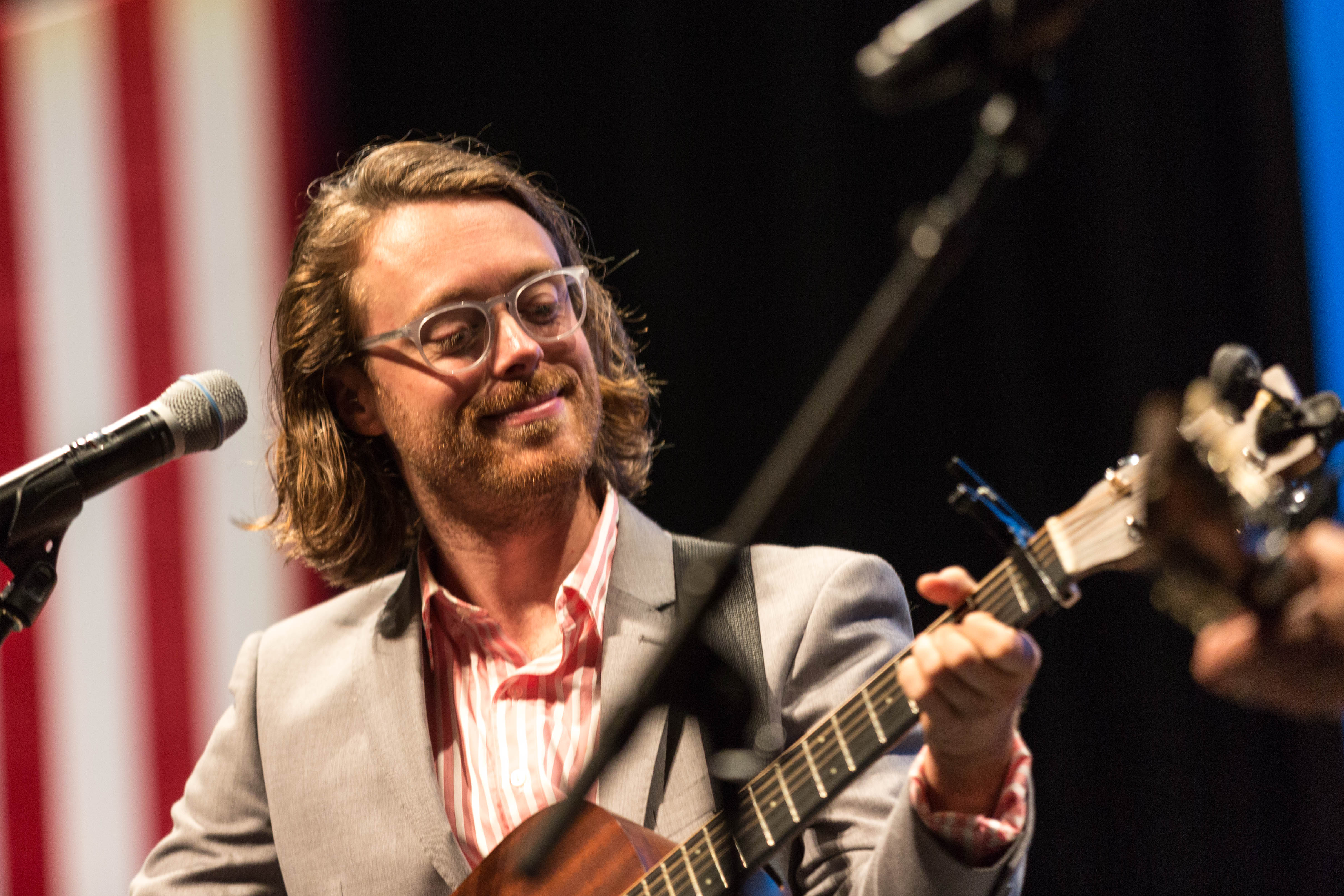 Jeremy Messersmith performing at a Hillary for MN event at the University of Minnesota